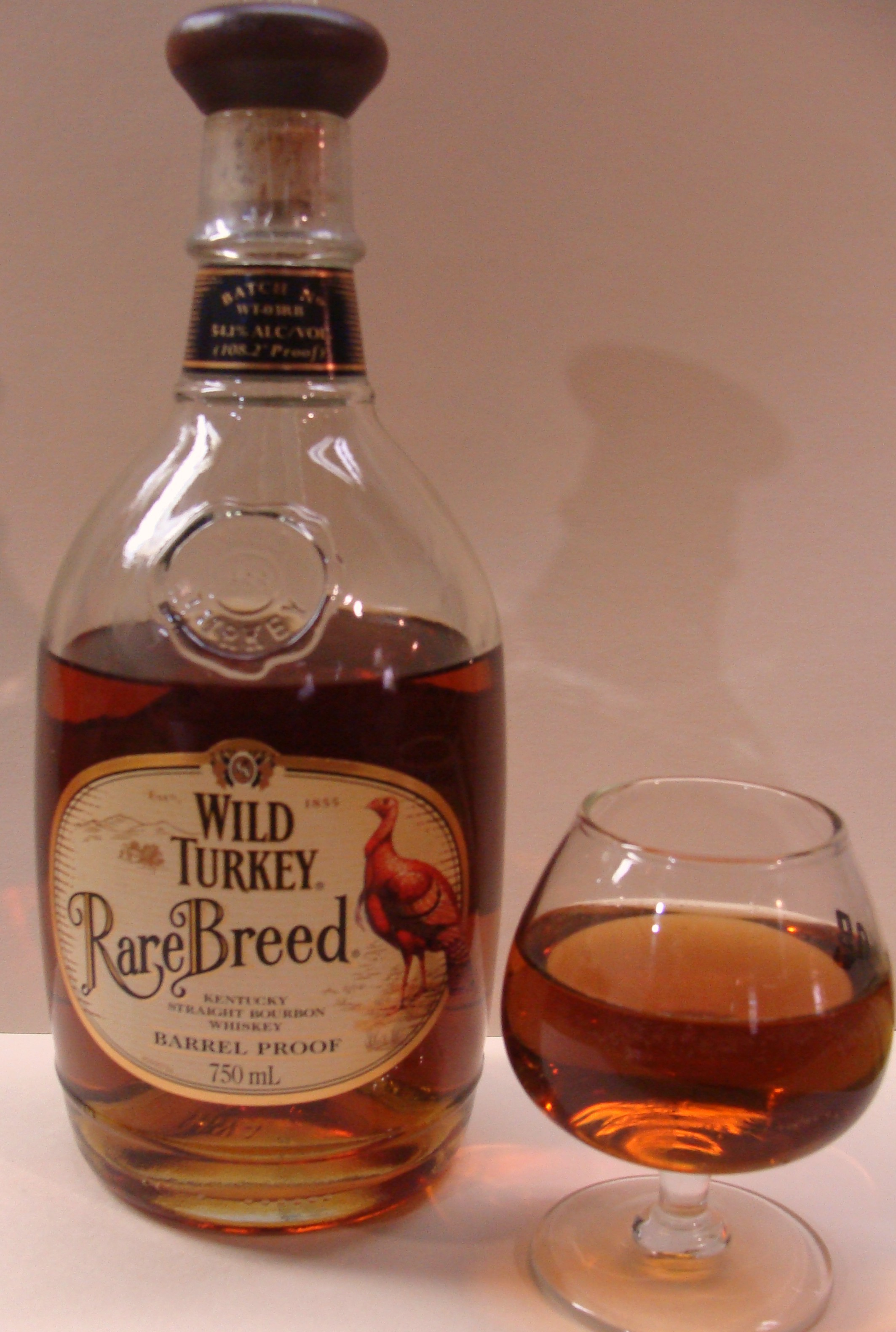 This is entirely my own work. It a photo of a bottle of Bourbon from my own whiskey Collection. I took the photo on 01/18/11 and uploaded on 02/07/11. It was taken with the sole intention of posting on wikipedia for education purposes only and for no capital gain. It is available for FREE USE to anyone.Craiglduncan (talk) 00:32, 8 February 2011 (UTC)